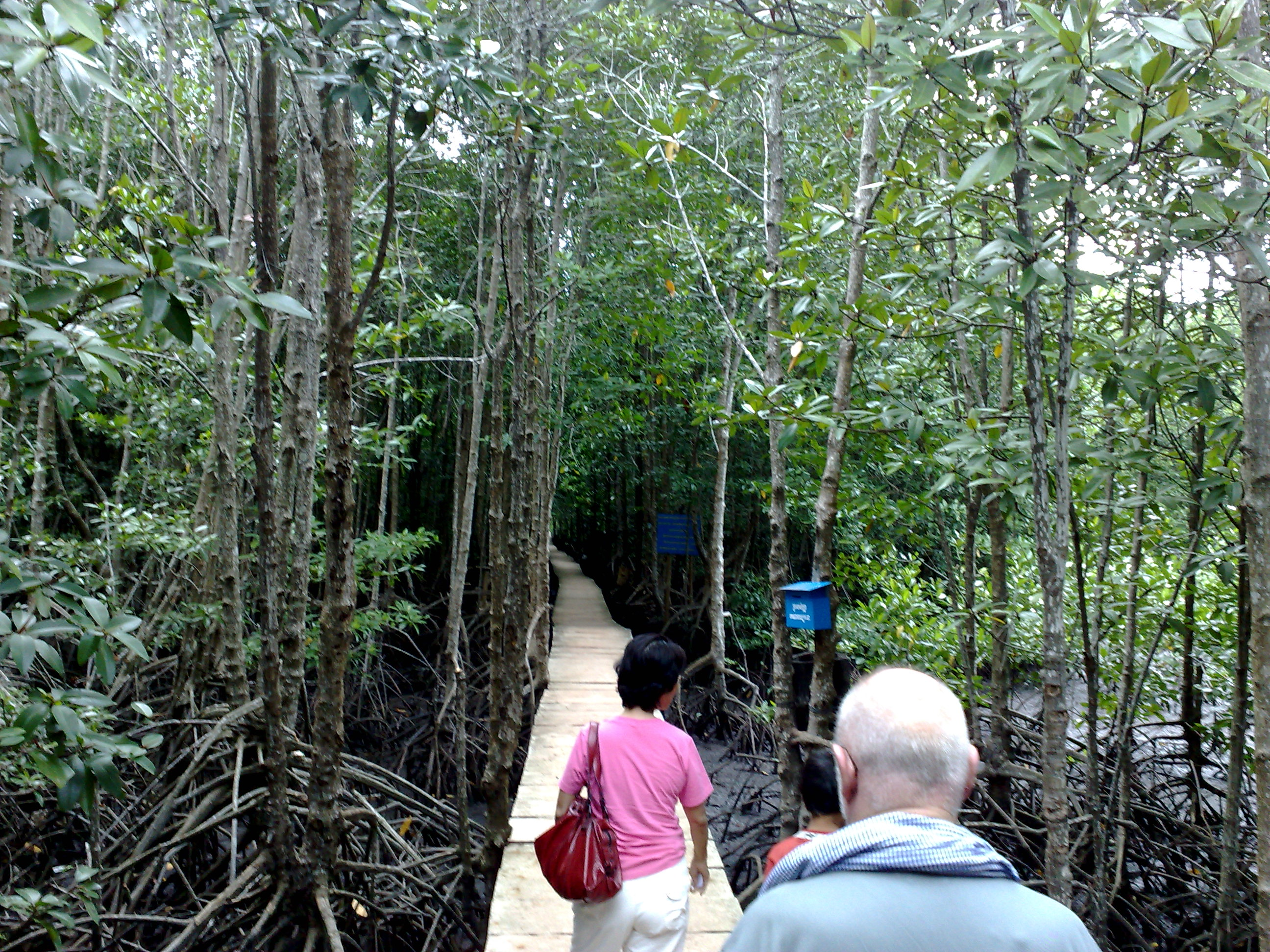 Tourists walk through mangrove forests at Peam Krasop Wildlife Sanctuary in Koh Kong Province in Cambodia.